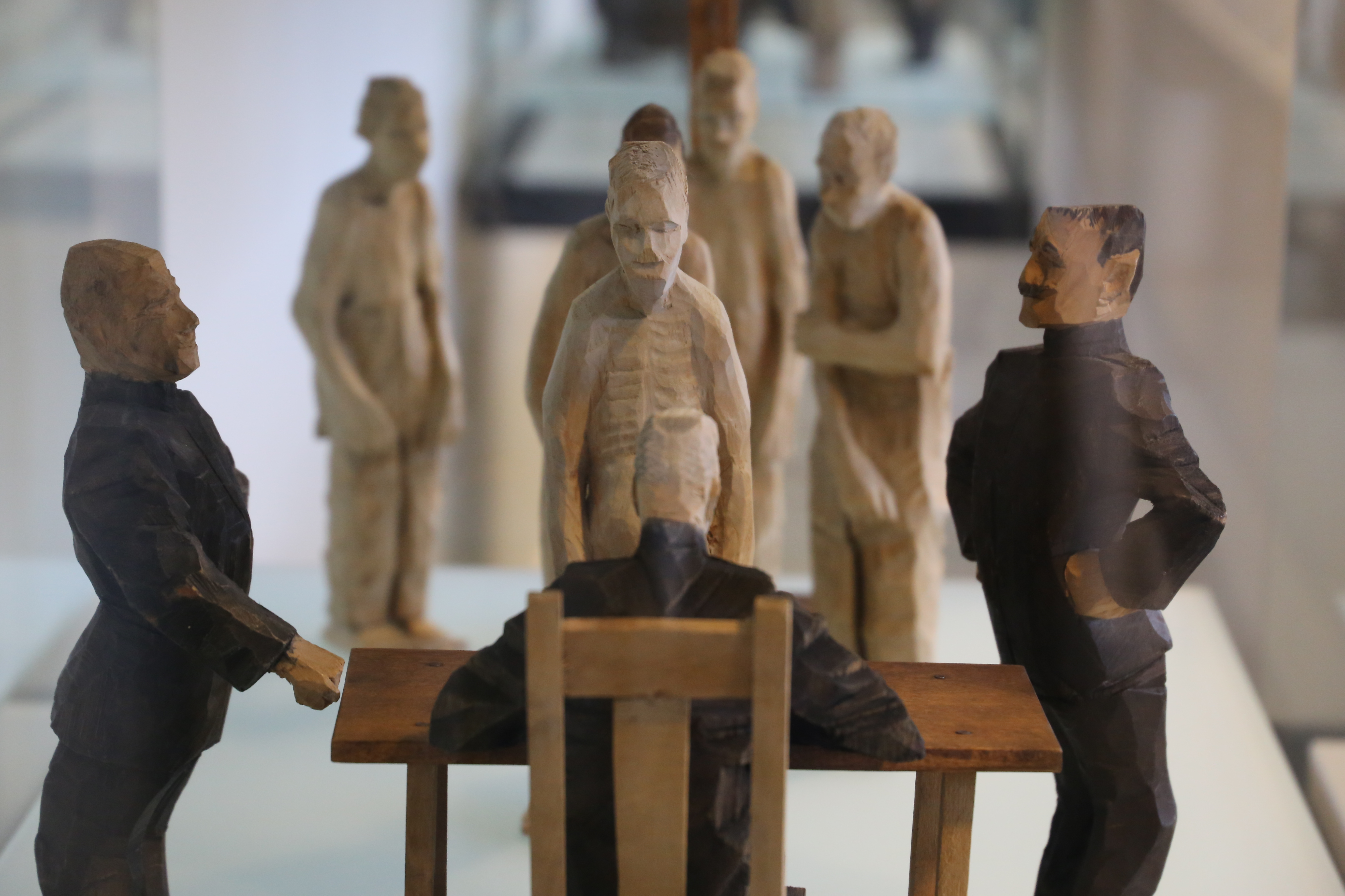 Döderhultarn